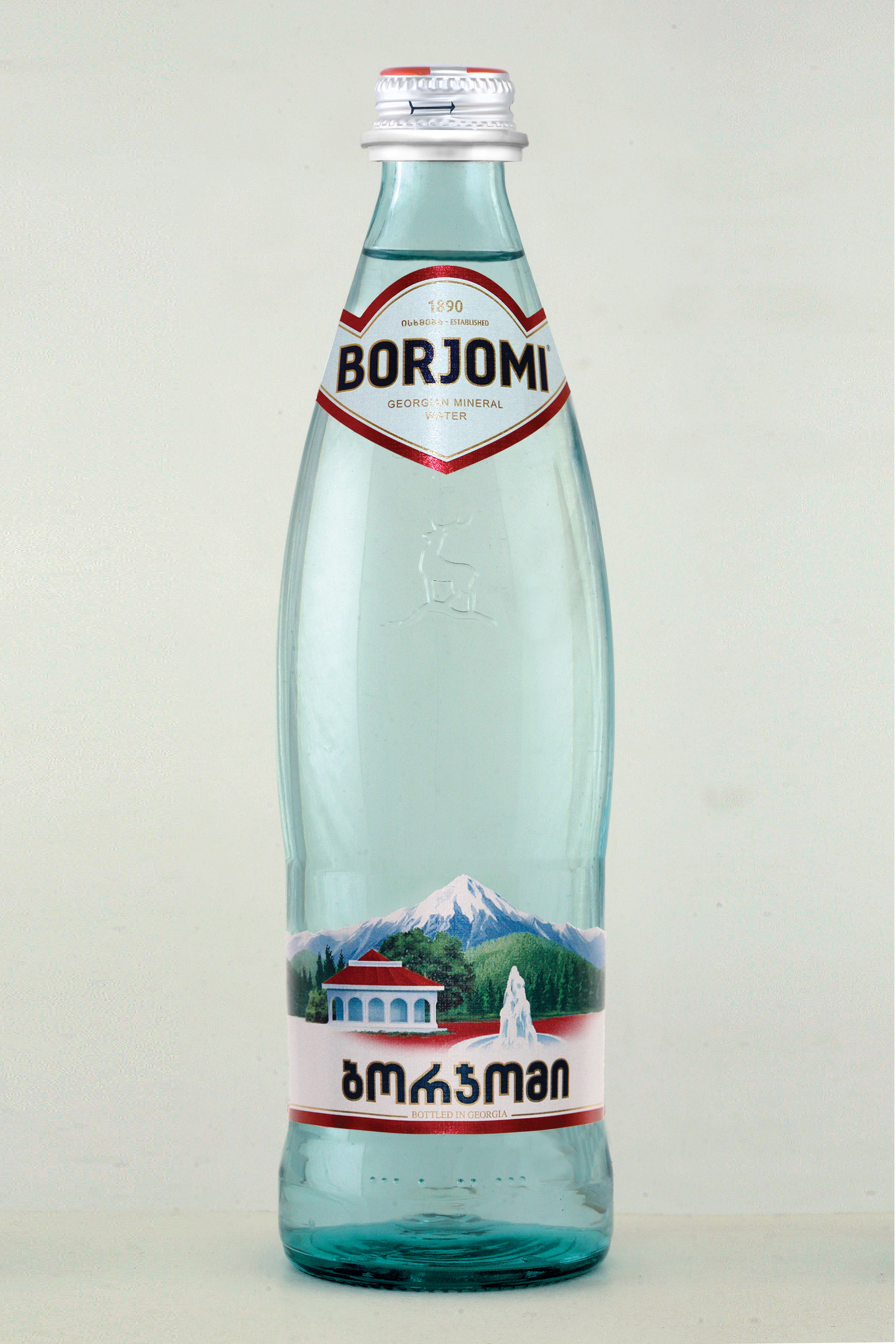 Glass Bottle of Borjomi, 0,5 Litres, Designed 2010